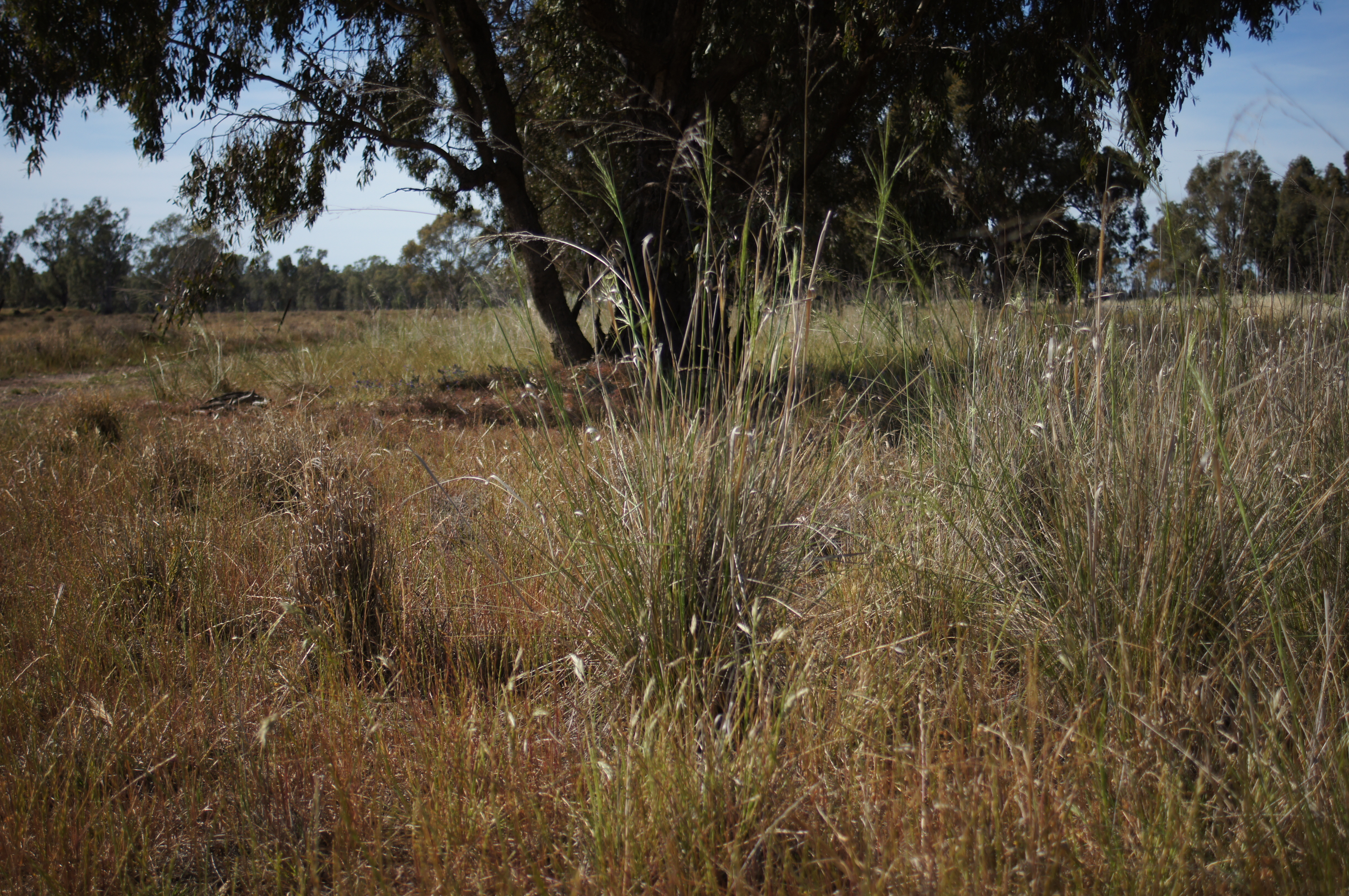 Native, warm-season, perennial grass growing in tufts up to 2 m tall. Common on heavy clay soils, it prefers good moisture, high fertility, and neutral to alkaline soils. Mostly found on the Slopes and near Plains in NSW. Particularly frost sensitive but drought tolerant. Provides a competitive perennial pasture which is resilient to weed invasion. Provides moderate quality feed for livestock when vegetative; low quality when flowering. More readily grazed by cattle than sheep. Seeds can cause injury to stock, especially sheep. Heavy grazing or slashing at flowering will reduce seed contamination, but may reduce the populations over time. Tolerates heavy grazing over summer and autumn, but occasionally resting at flowering will aid persistence.